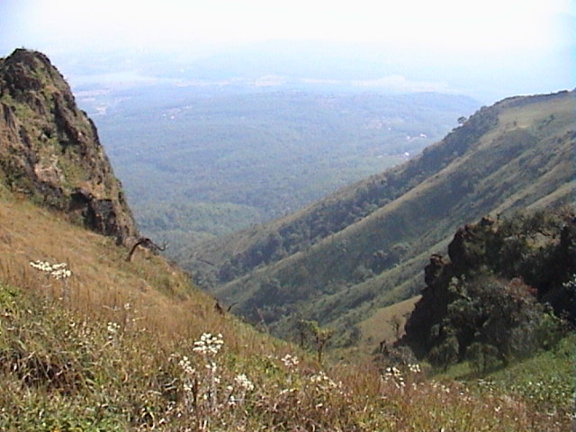 ಮುಳ್ಳಯನಗಿರಿ ಹಾದಿಯಲ್ಲಿ... On the way to Mullayanagiri.. ಚಿತ್ರ: ಸಂಪಿಗೆ ಶ್ರೀನಿವಾಸ, ಬೆಂಗಳೂರು Pic: Sampige Srinivasa, Bengaluru